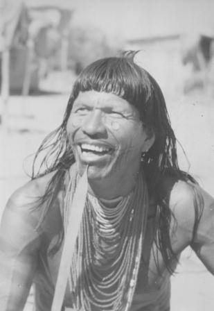 Citation: Mennonite Board of Missions Photograph Collection. Mission to Brazil, 1958-1980. IV-10-7.2 Box 2 Folder 20, Photo #93. Mennonite Church USA Archives - Goshen. Goshen, Indiana.